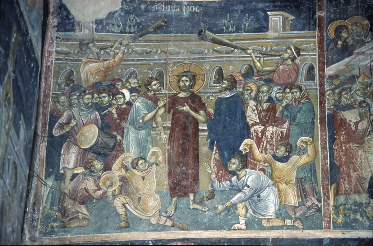 Frescos in St. George Church in Staro Nagoričane, Macedonia